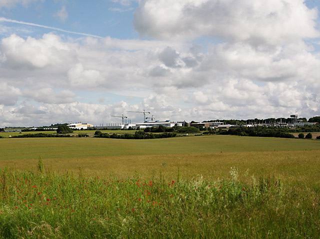 View of farmland and government buildings NE of Porton Seen from byway. The buildings are within the Porton military danger area. They relate either to the Health Protection Agency or the Defence Science and Technology Laboratory.